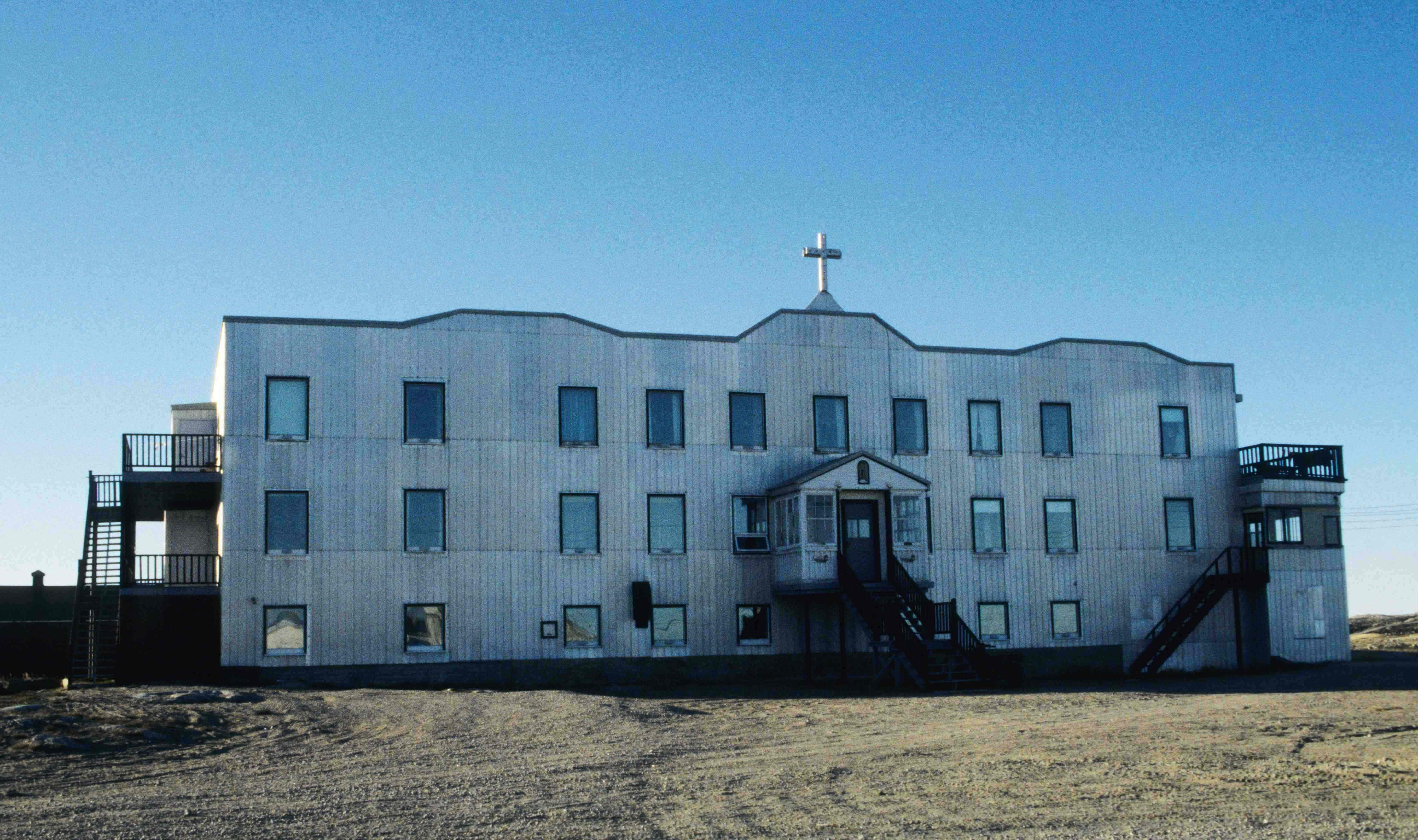 Chesterfield Inlet, Nunavut, Canada: Former Mission Hospital